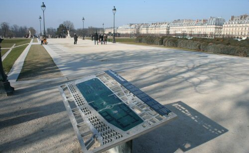 Tuileries Paris (France) photo token by M.GASMI.